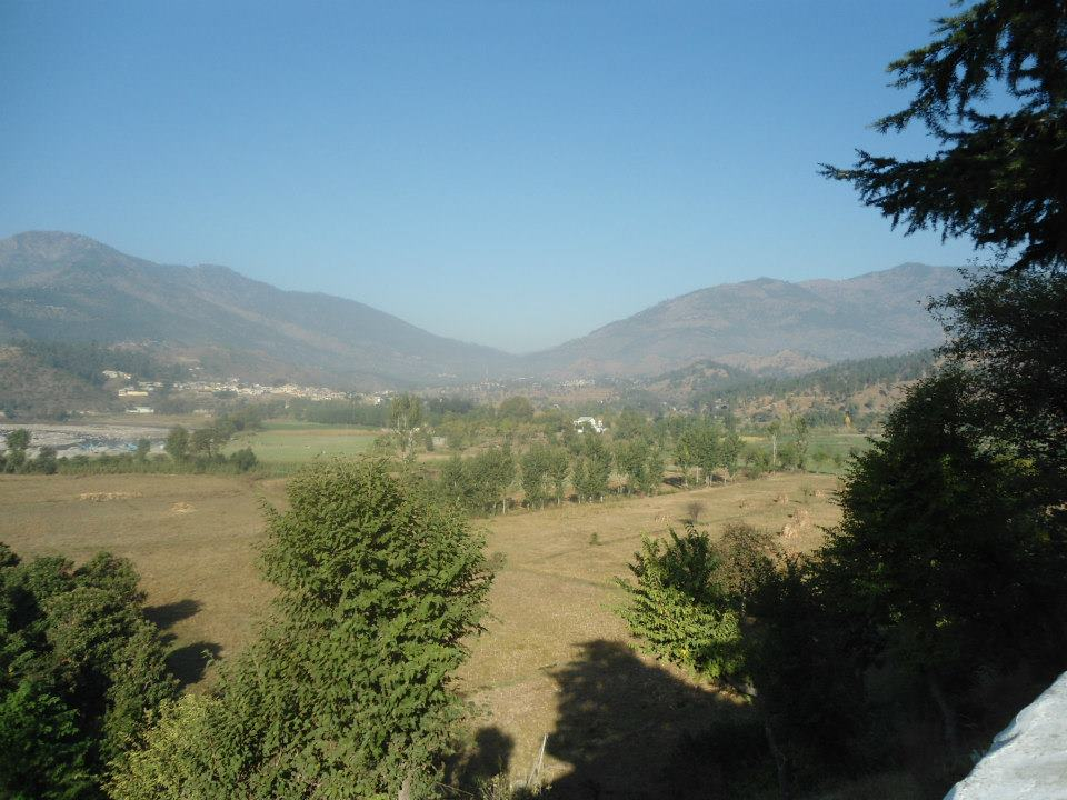 Vista beyond Mansehra on KKH, my photo